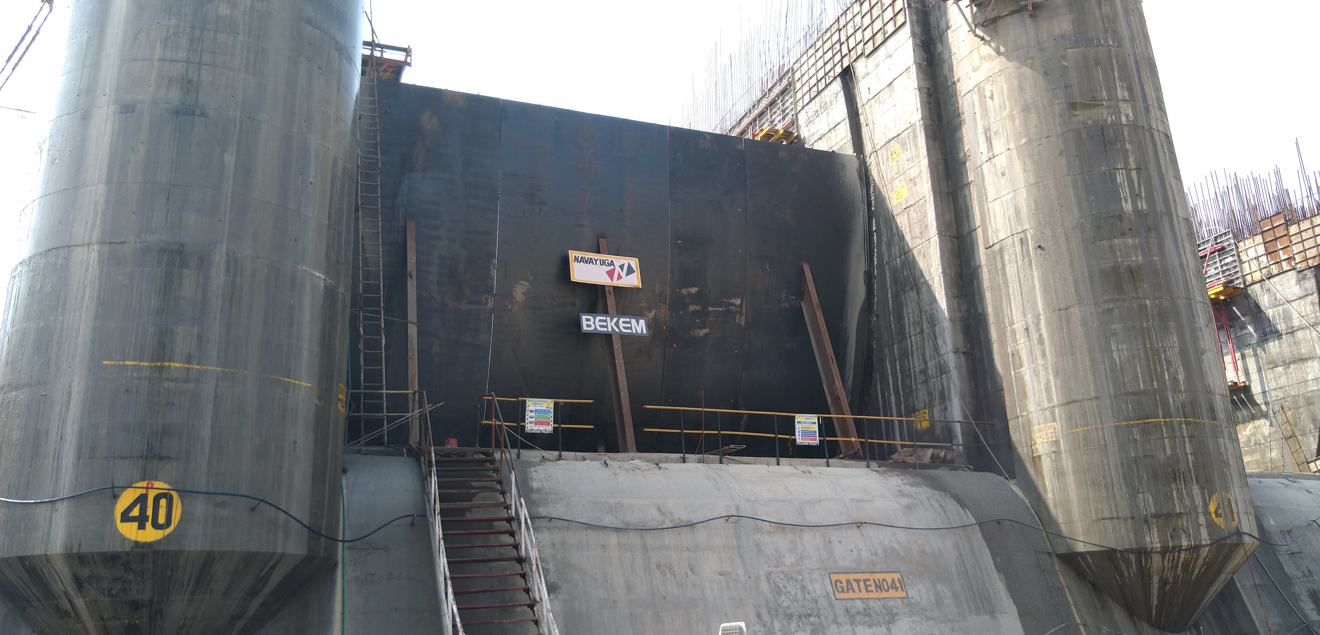 Out of 48 radial gates of Polavaram Project, the first gate is partially installed